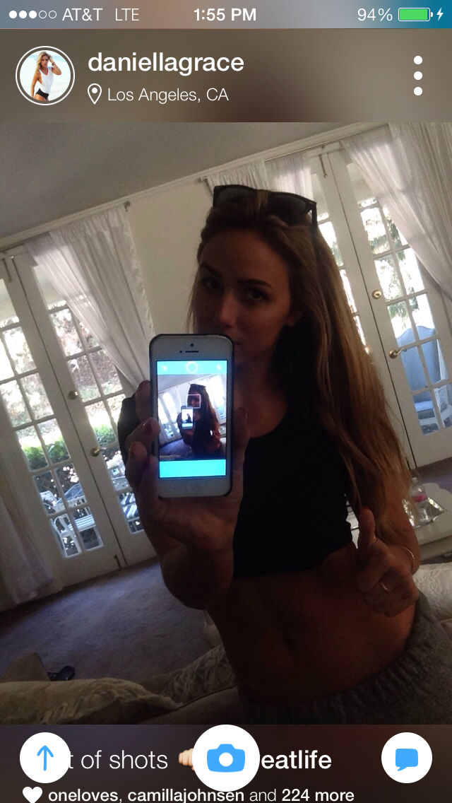 Shots of Me application screenshot. Modelling portfolio at